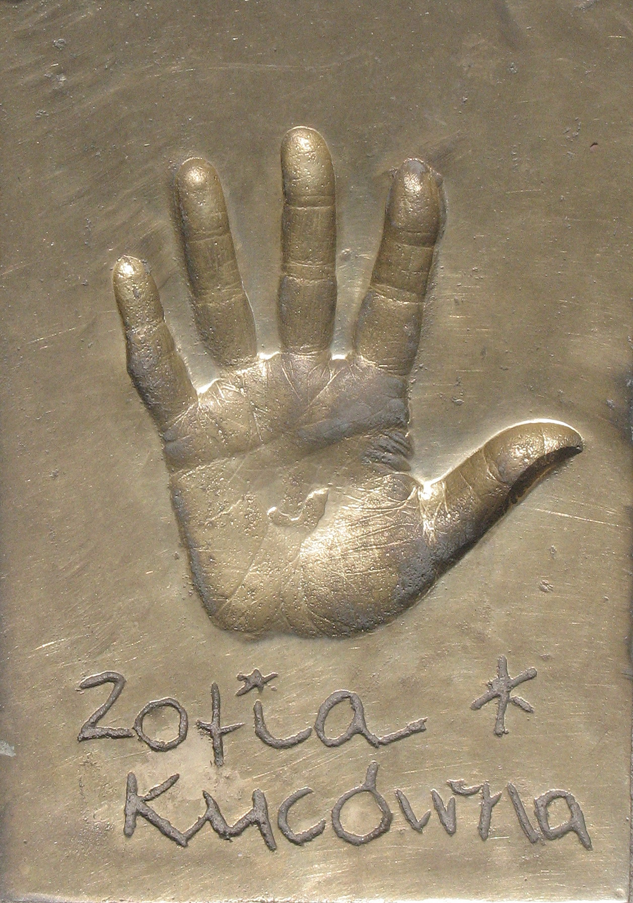 Zofia Kucówna - handprint and signature in Międzyzdroje